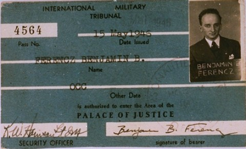 ID Card of Benjamin Ferencz for the International Military Tribunal in Nuremberg. Ferencz was a civilian investigator with the OCCWC, thus the picture showing him in civilian clothes rather than in uniform does not imply that this is a private picture. His name tag is typical of the ID pictures taken by OCCWC as well.